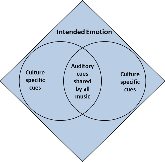 For culture in music cognition page